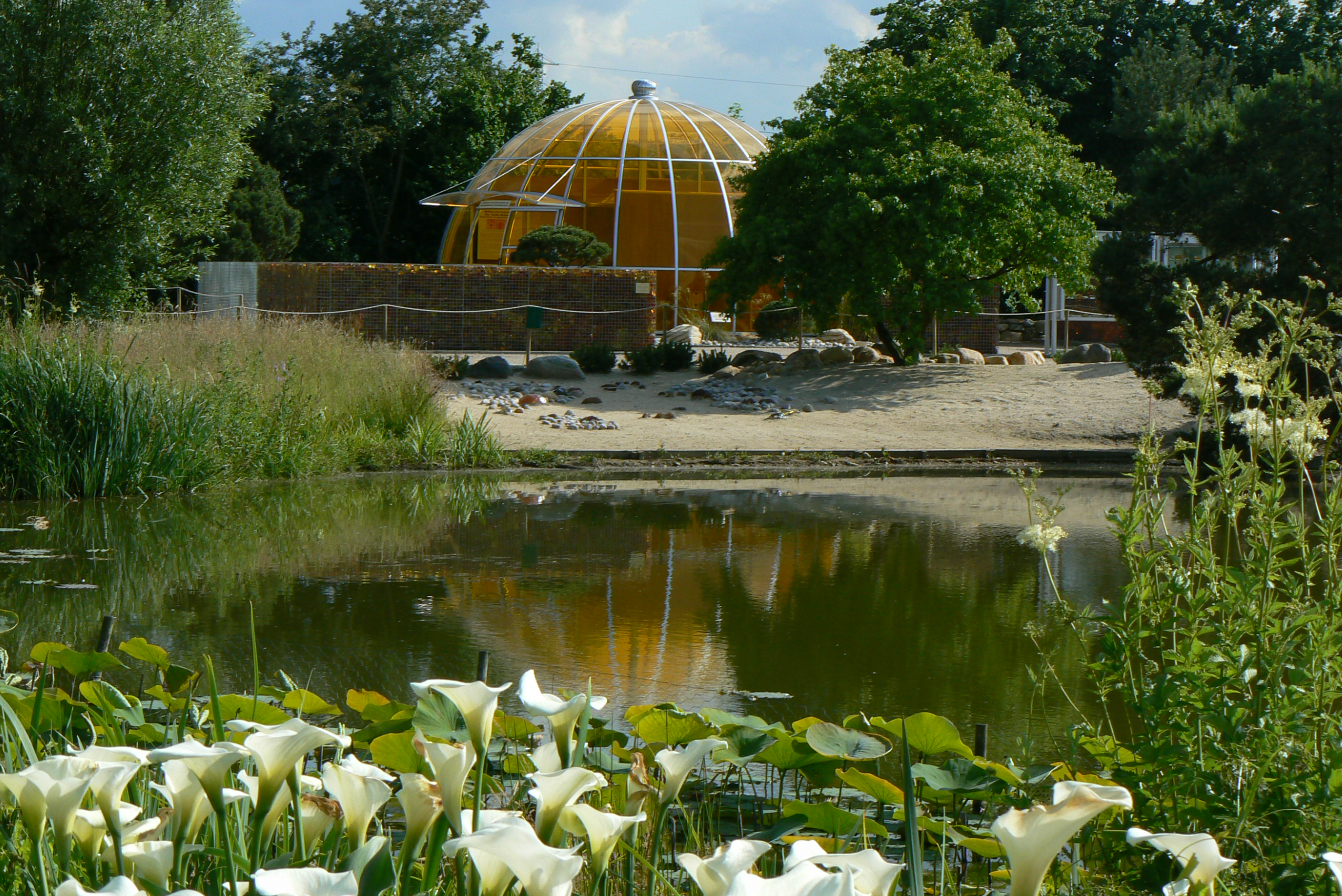 The Amber-pavilion in the Arboretum Ellerhoop, Schleswig-Holstein, Germany